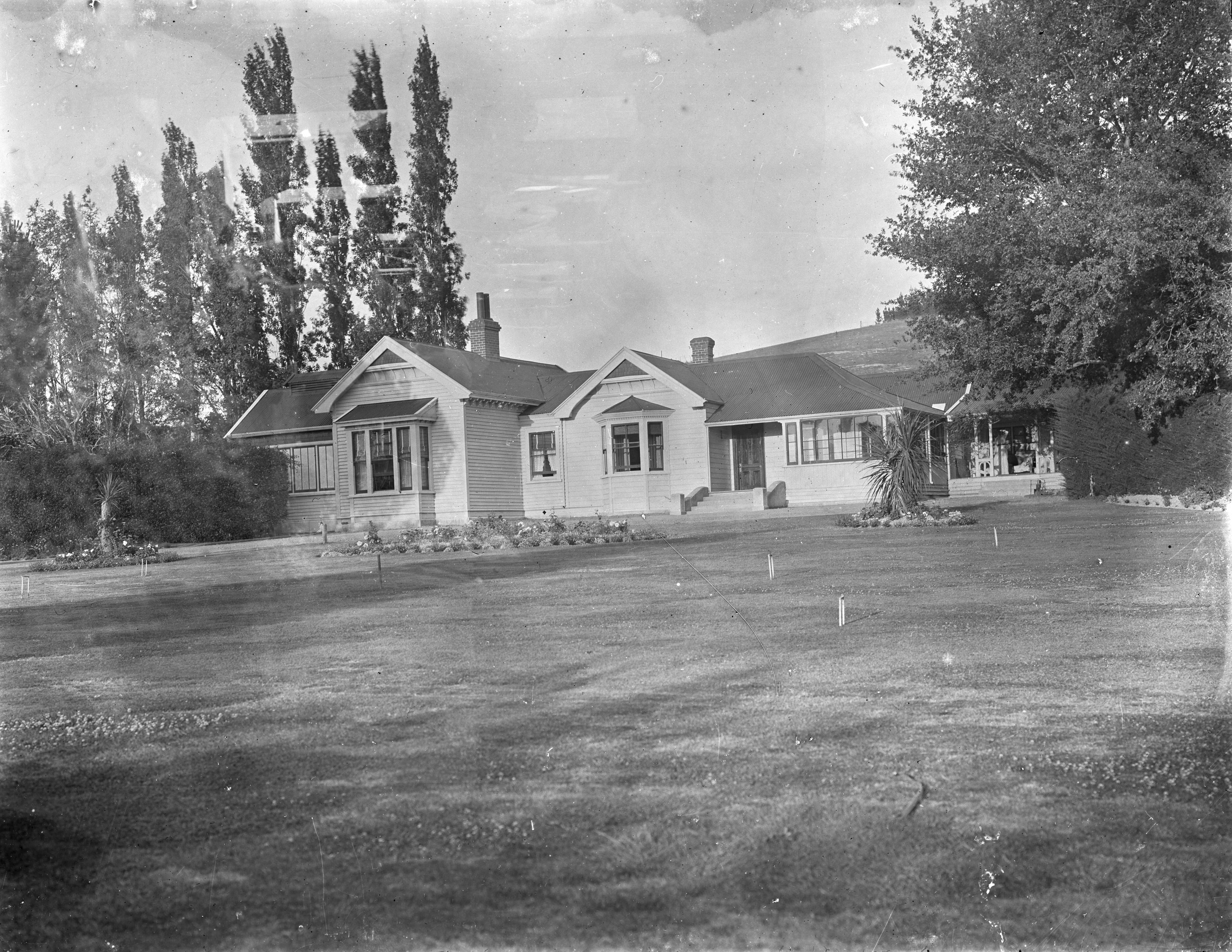 Mendip Hills Homestead (owned by Andrew William Rutherford), with croquet lawn laid out in front, and poplar trees left background. Photograph taken by Albert Percy Godber in 1917.